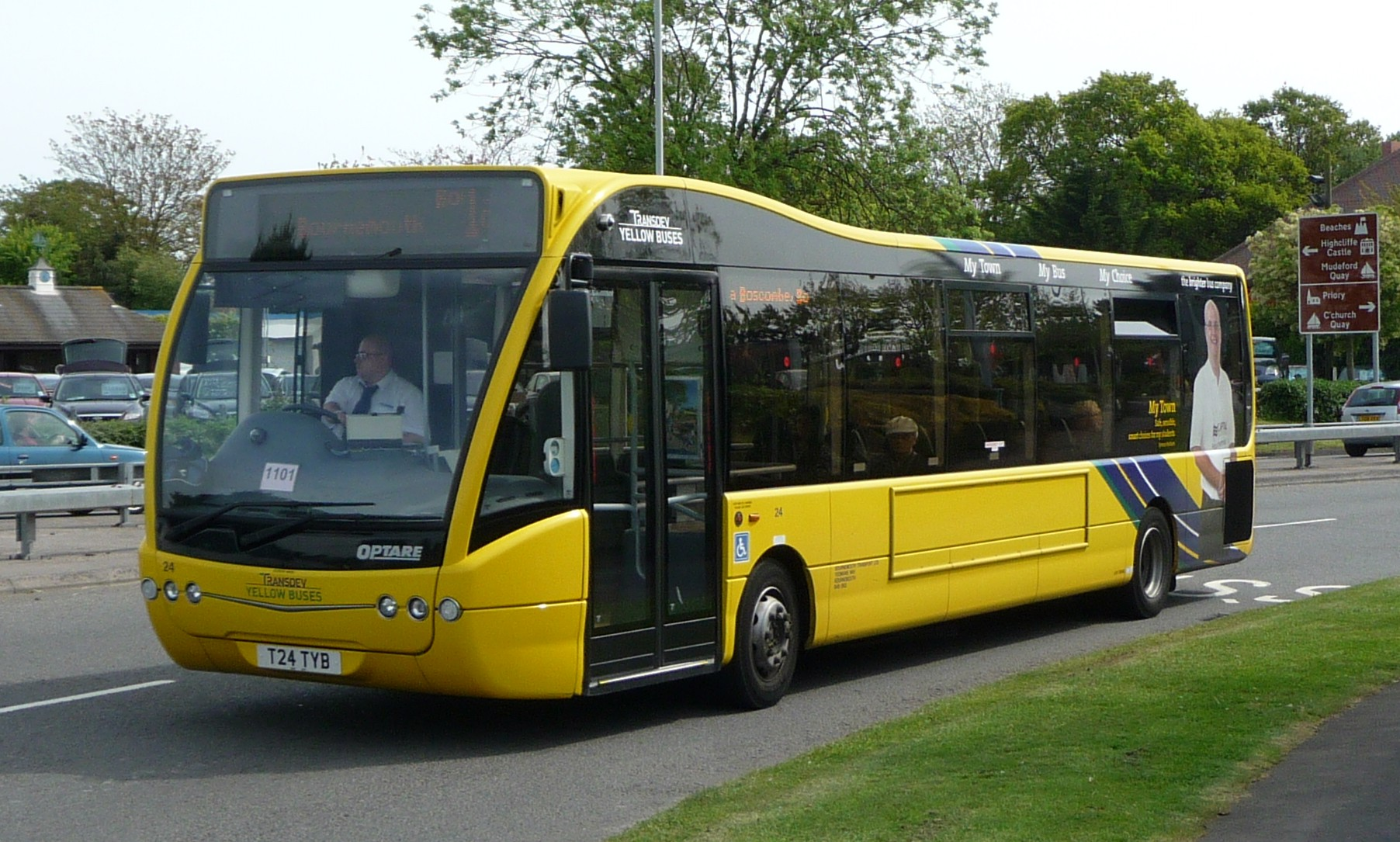 Transdev Yellow Buses 24 (T24 TYB), an Optare Versa, on Lyndhurst Road (A35), Somerford, Christchurch, arriving at Sainsbury's on route 1a.